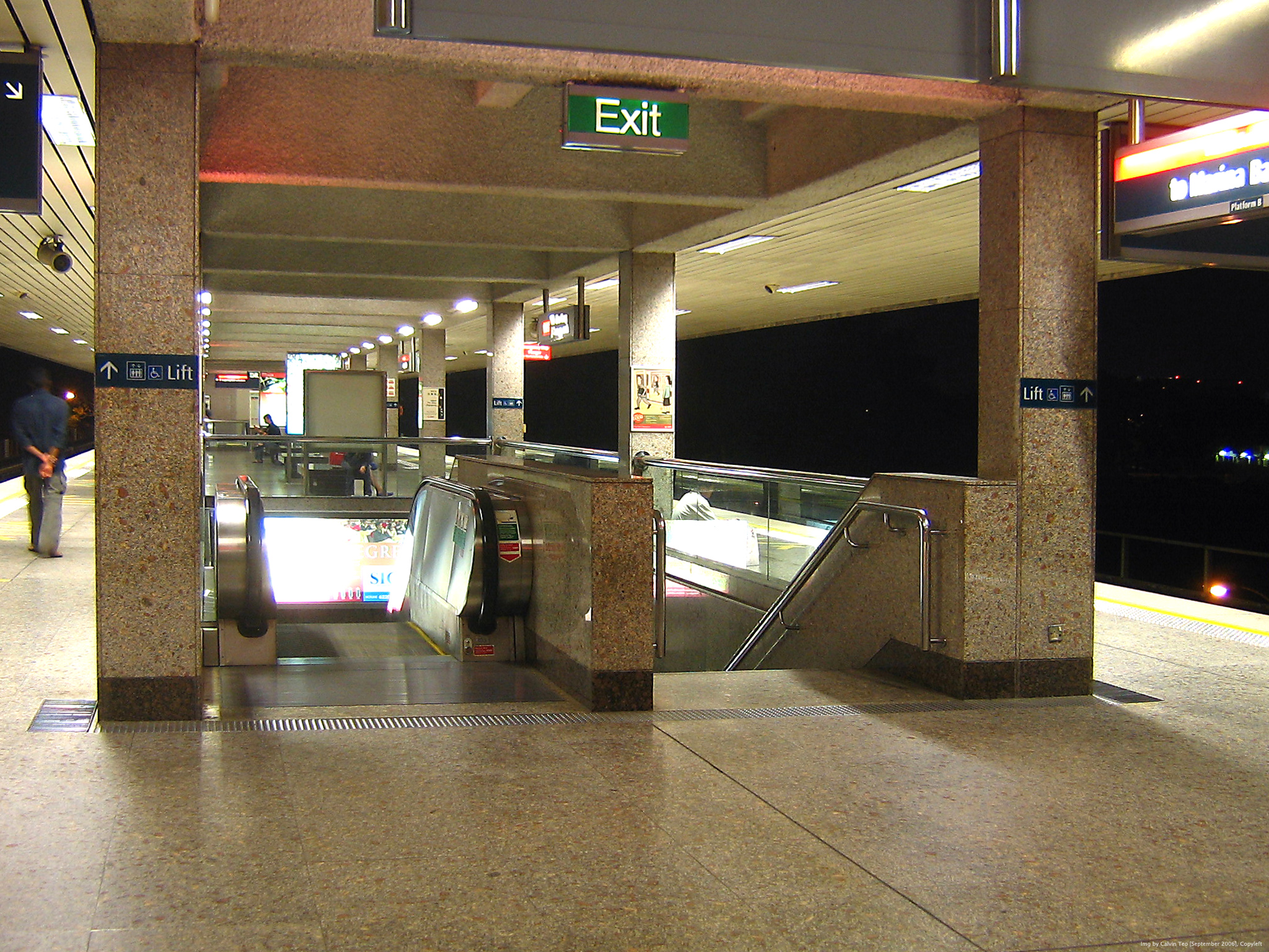 Platform of NS15 Yio Chu Kang MRT Station